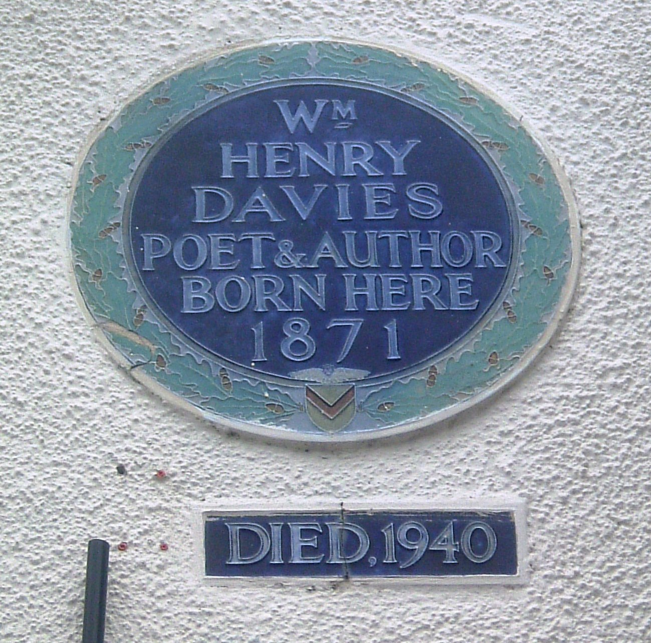 Plaque commemorating the birthplace of Welsh poet William Henry Davies at The Church House Inn, Newport, Monmouthshire, Wales. This image represents an Open Plaques entry #4120.